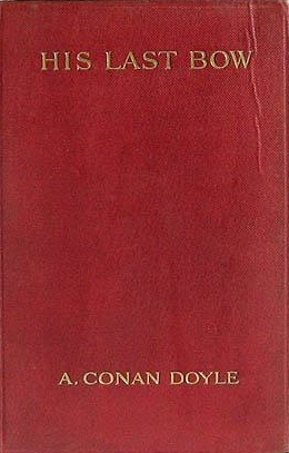 cover of His Last Bow, by Arthur Conan Doyle to illustrate an article